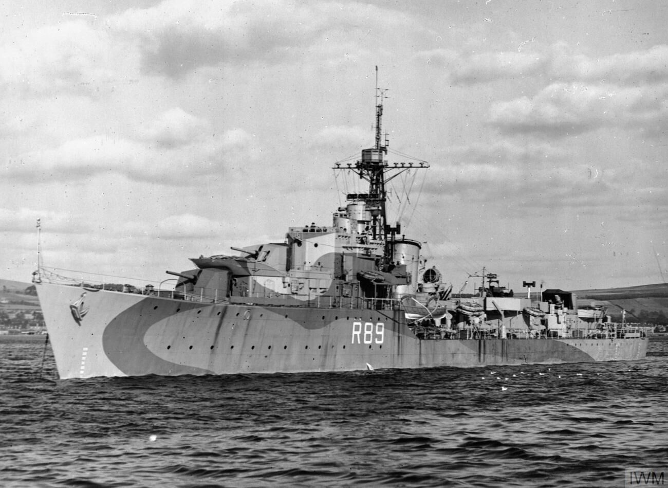 HMS Termagant at anchor, c1943 (IWM FL 9373)